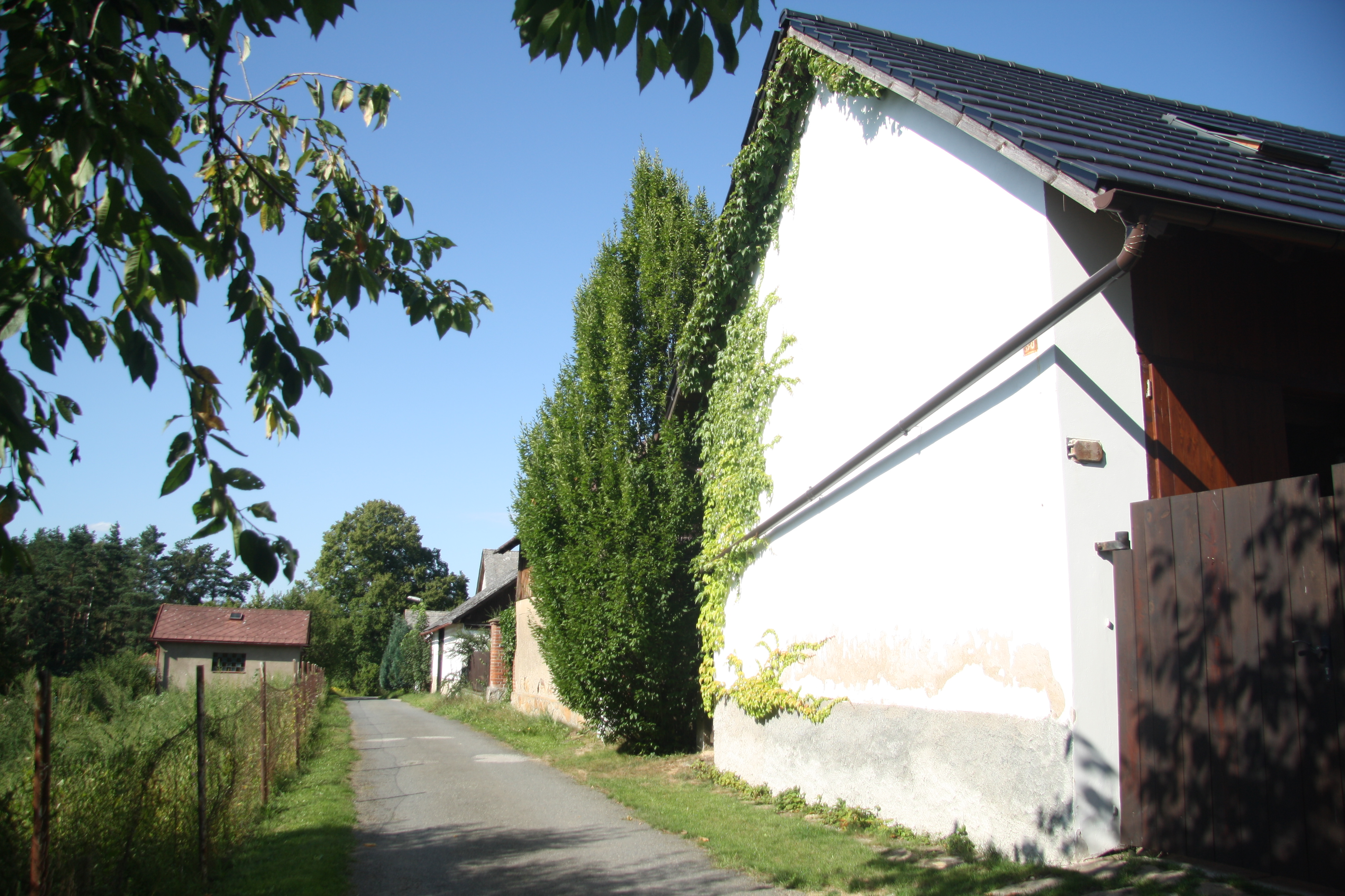 Center of Hlavňov, Krásná Hora, Havlíčkův Brod District.